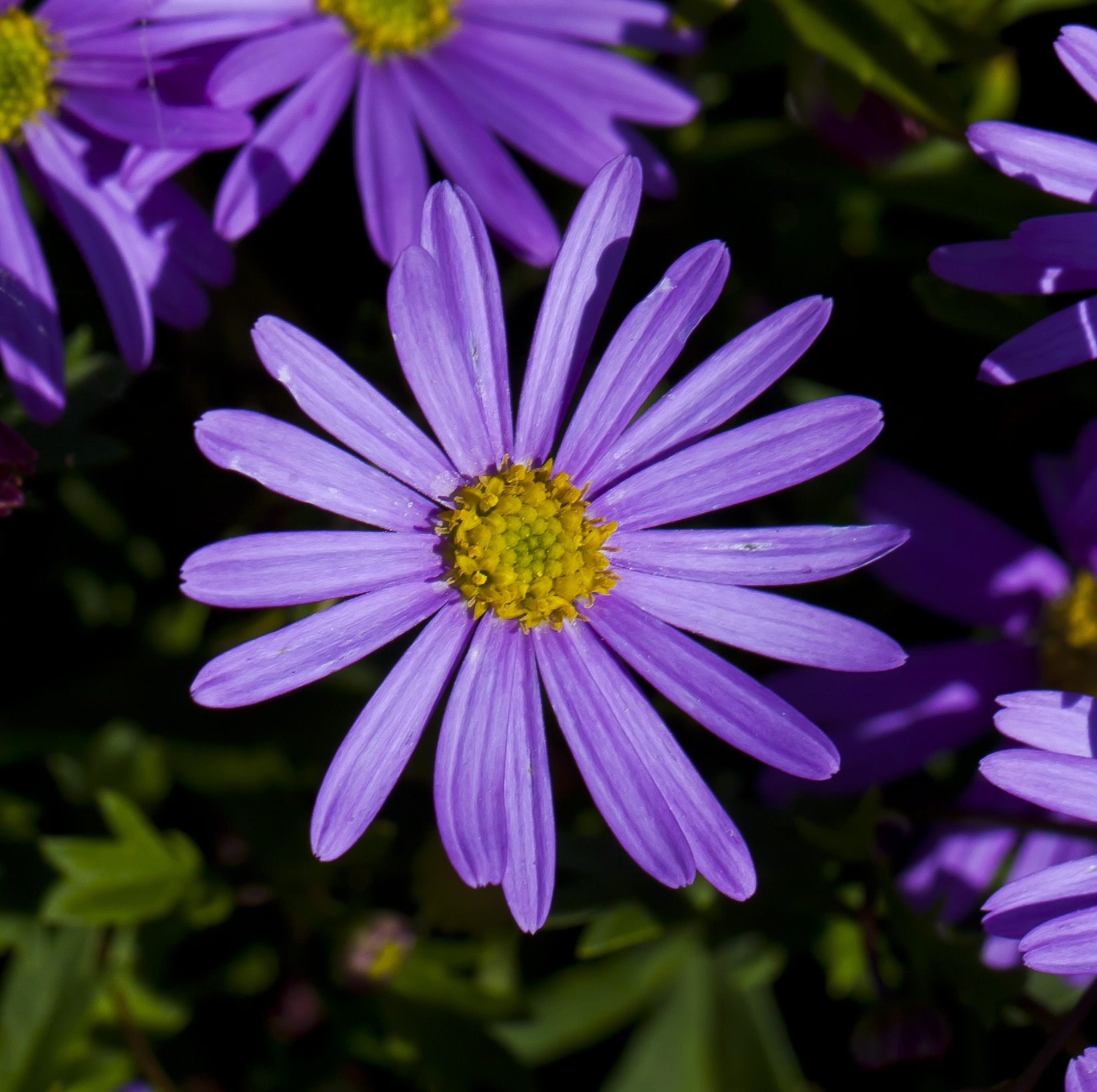 Brachyscome multifida, Tallinn Botanic Garden, Estonia